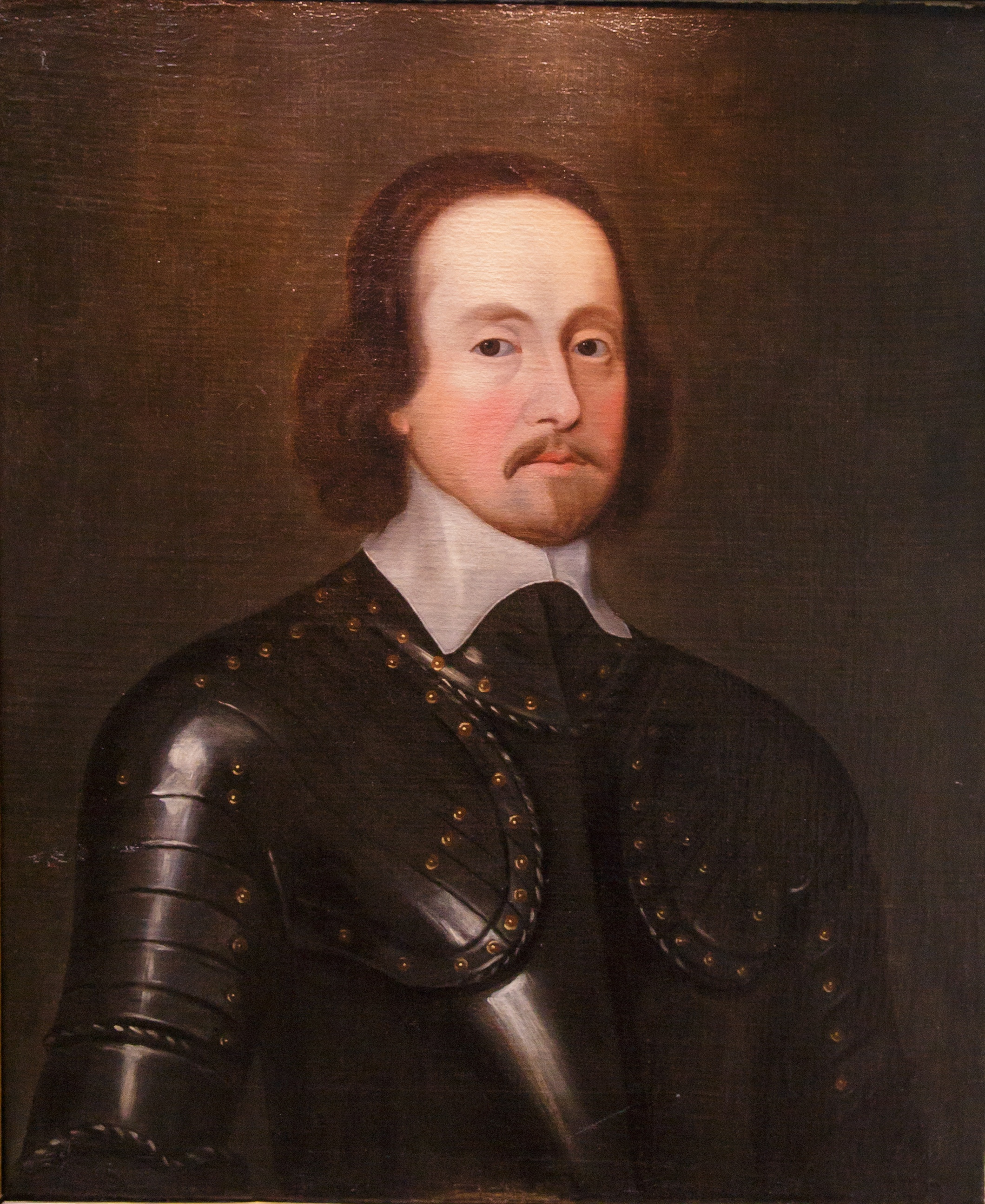 Circle of William Dobson, Sir Charles Coote, 1st Earl of Mountrath, Coote baronets|2nd Baronet Coote, ca. 1642, in the Ballyfin Demesne